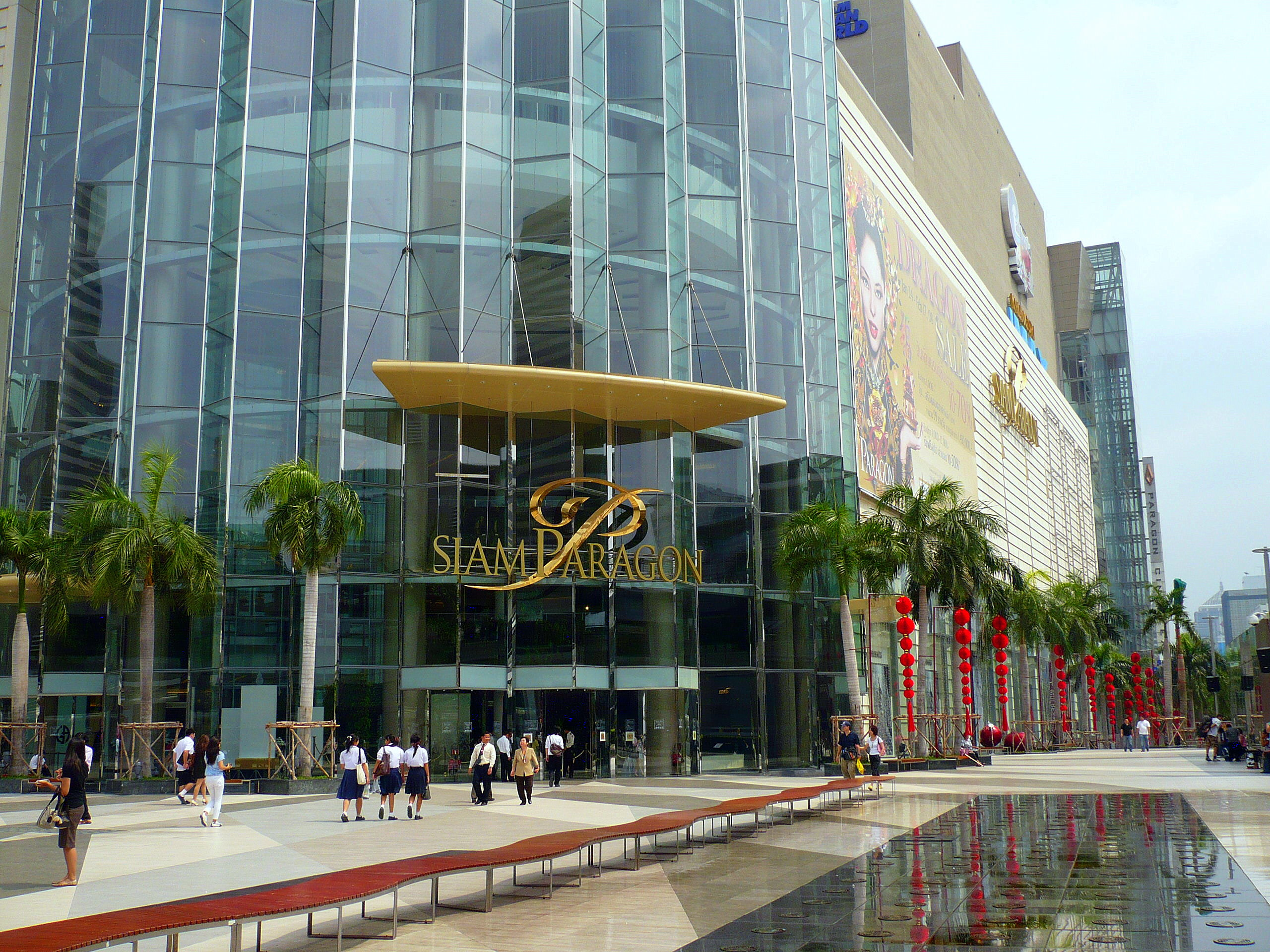 Siam Paragon Shopping Complex, Bangkok, Thailand.